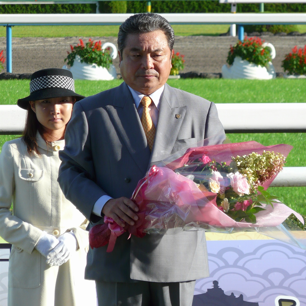 Kaneo-Ikezoe20101010